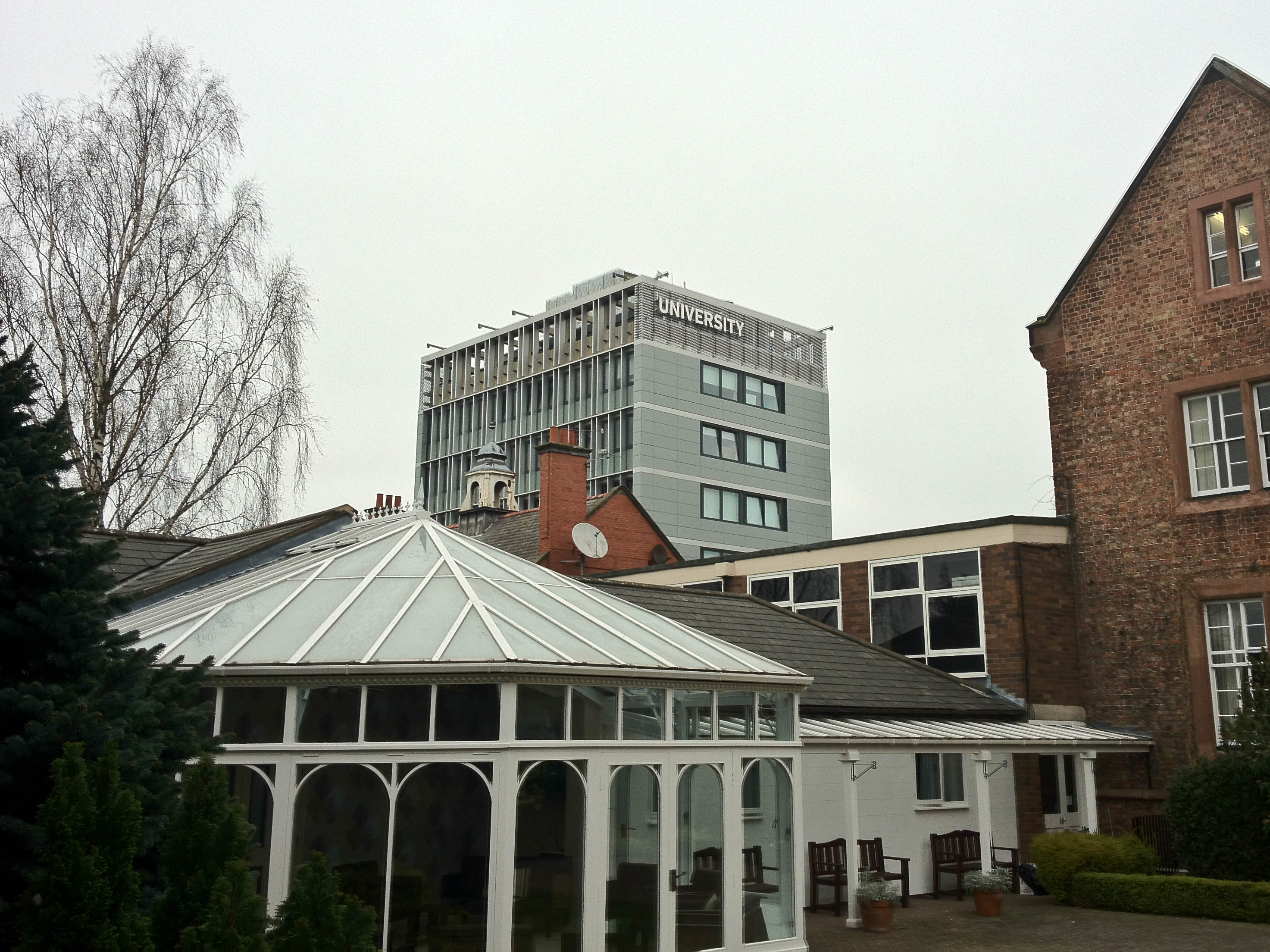 University of Chester campus.